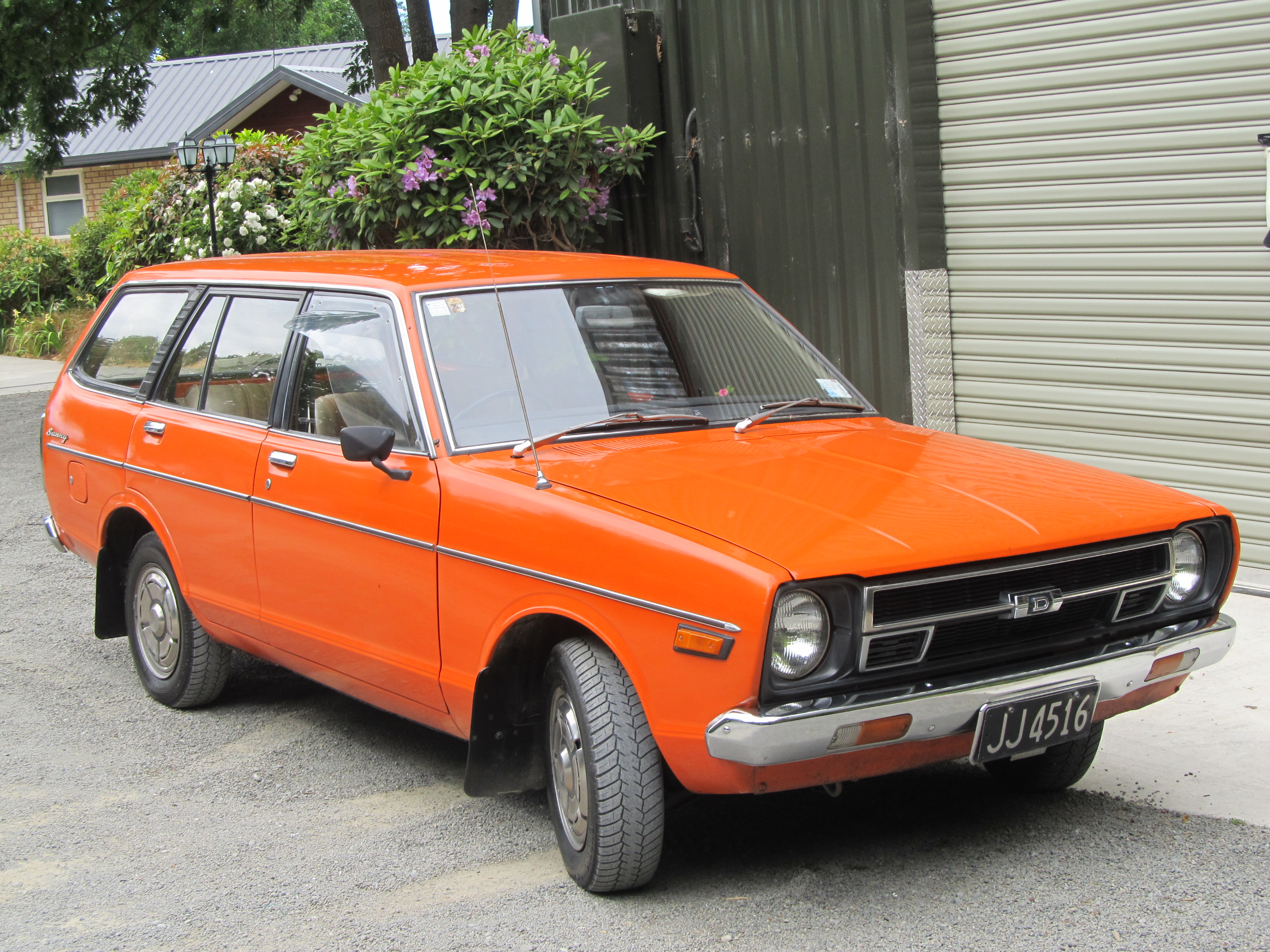 1979 Datsun Sunny wagon, photographed in New Zealand.